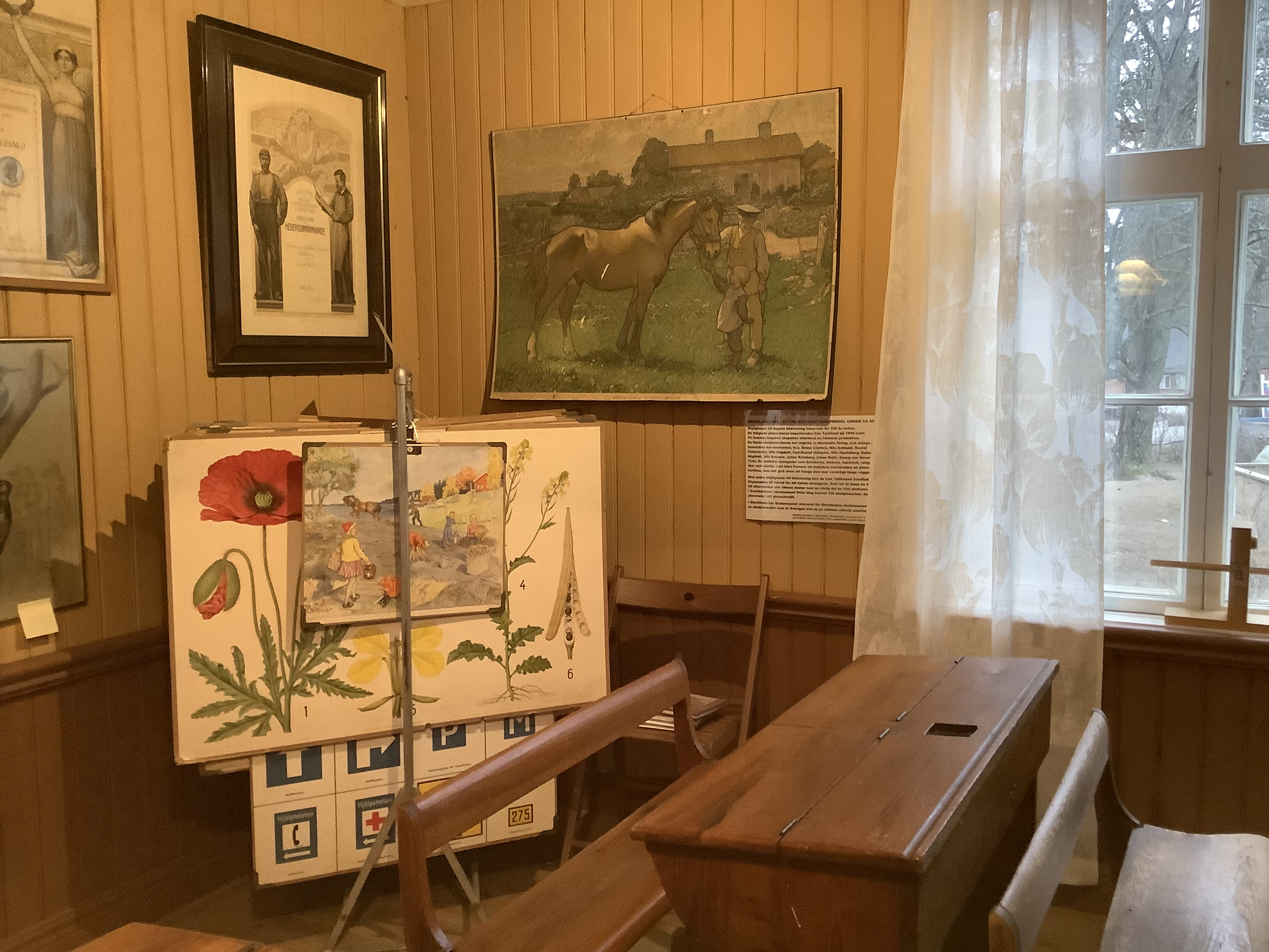 Educational posters in Svartbäcken school museum in Haninge municipality in Sweden.